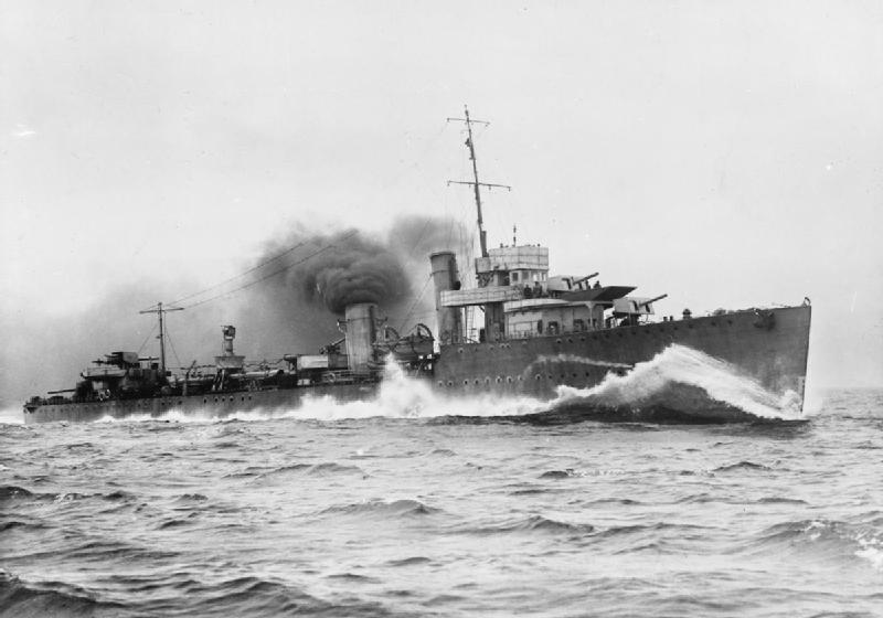 Photograph of British V class destroyer HMS Vimiera at speed.